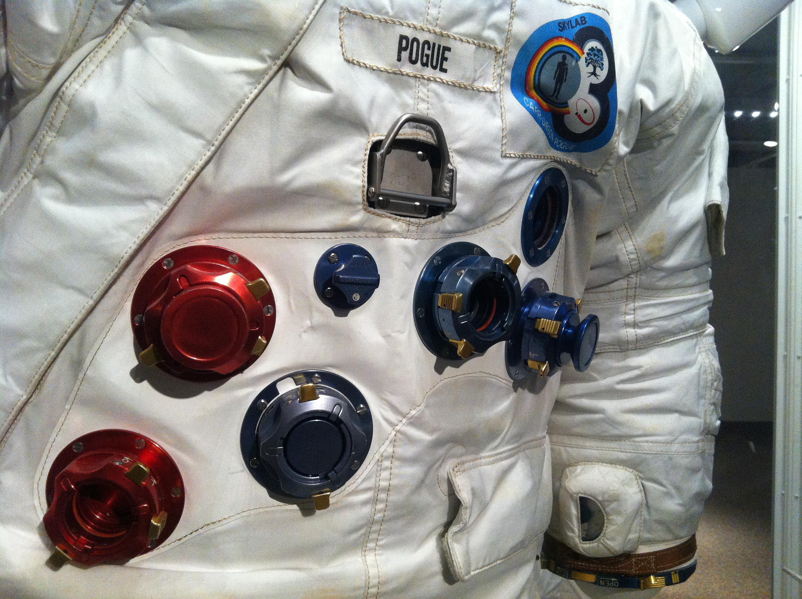 Umbilical connector details of Skylab pressure suit.